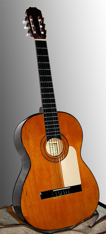 Spanish Guitar.